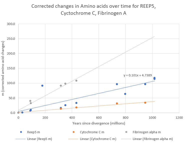 The evolutionary rate of REEP5 as compared to that of Cytochrome C and Fibrinogen Alpha